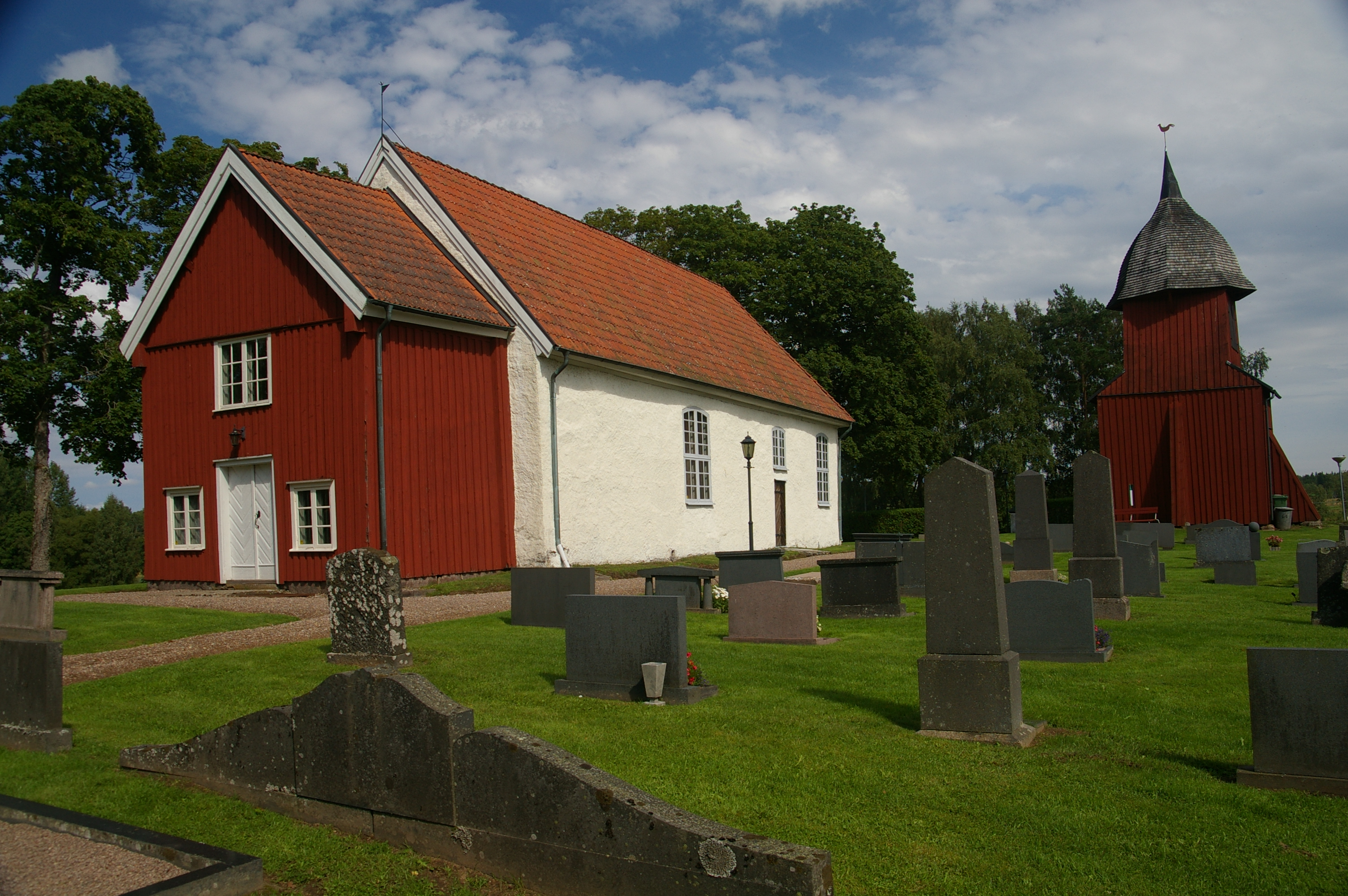 Fivlereds kyrka (Swedish:Church of Fivlered) in Västergötland, Sweden.